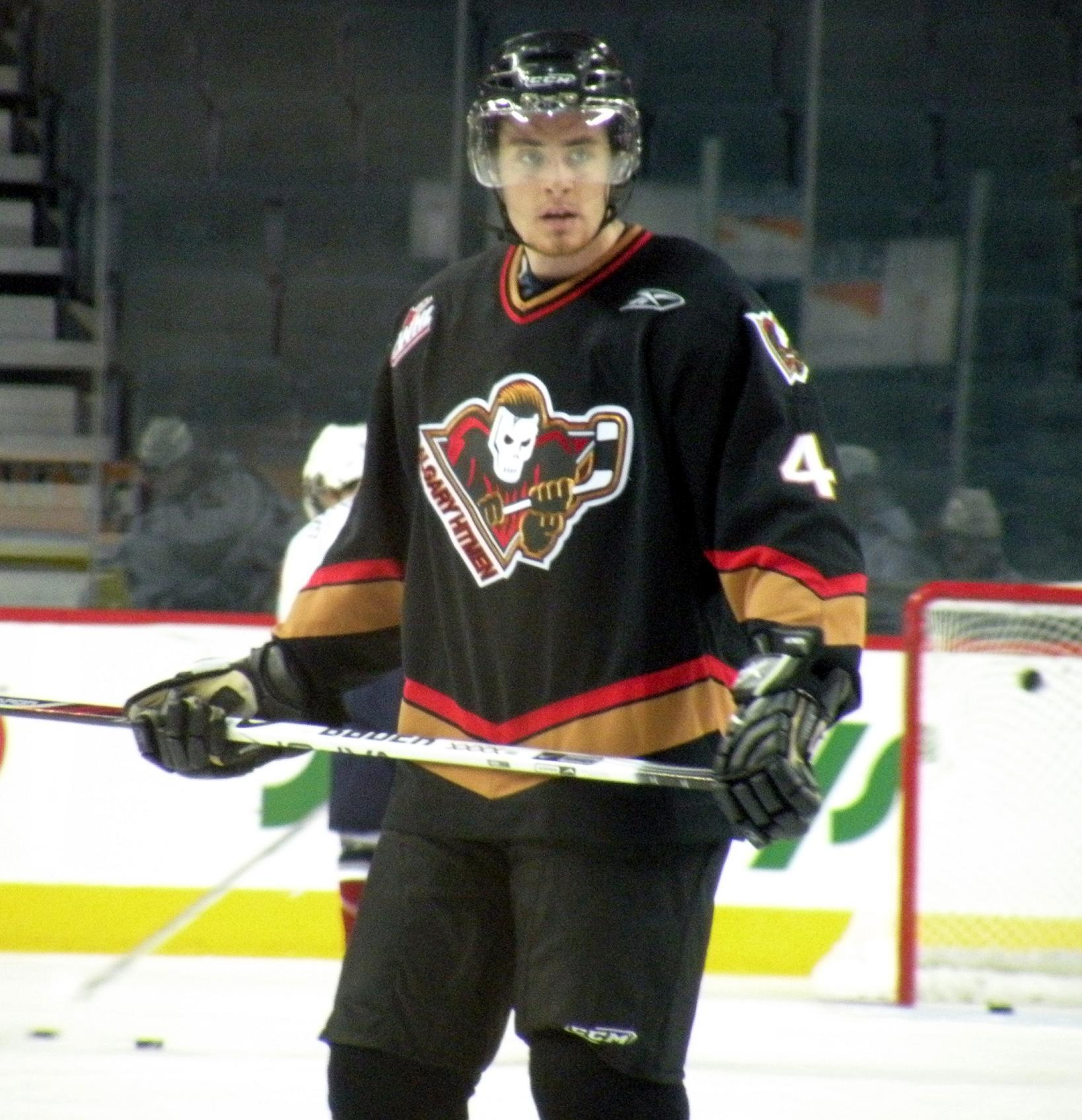 NHL prospect Alex Plante during a Calgary Hitmen game on October 16, 2008.